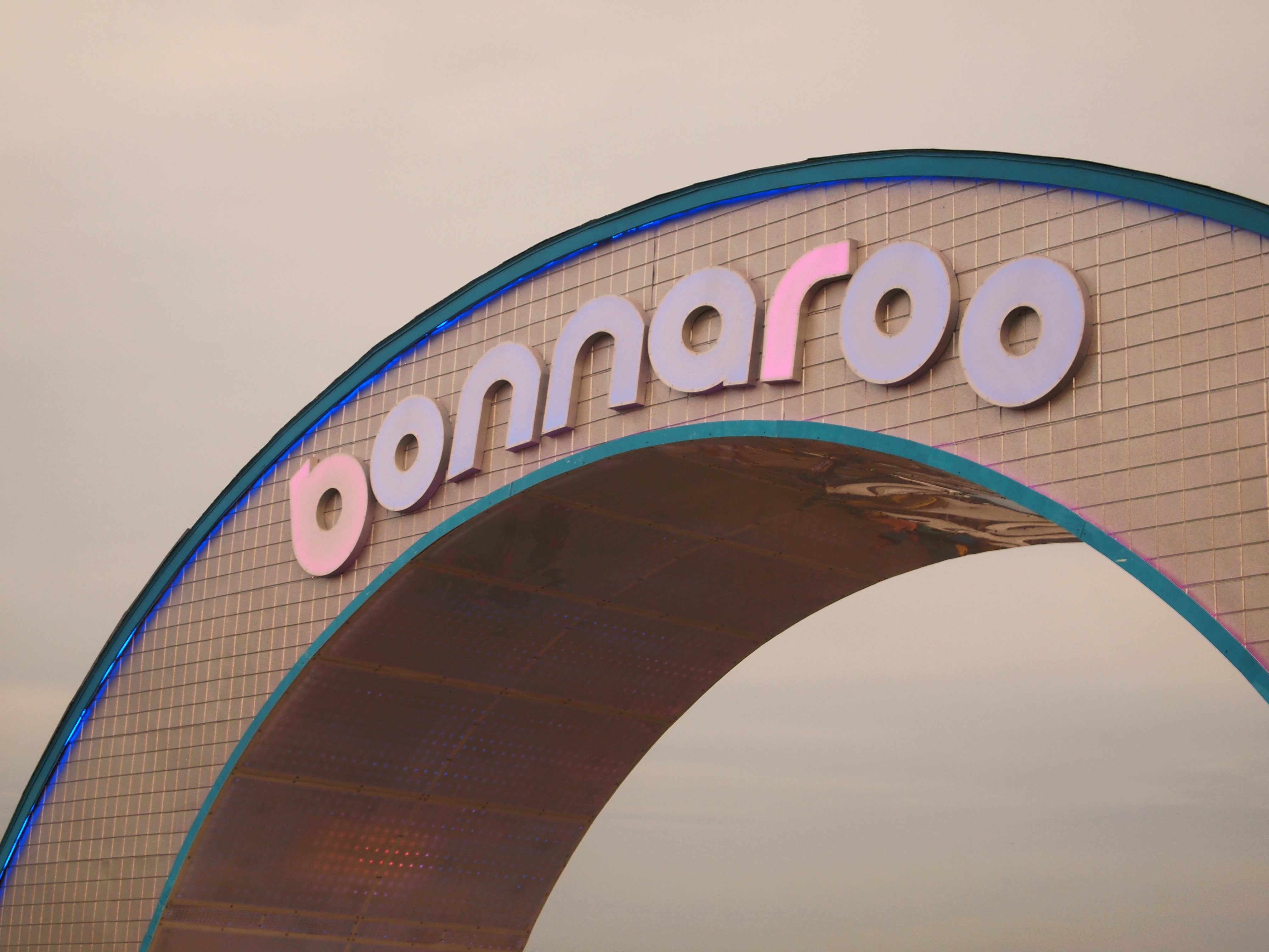 The Centeroo arch at Bonnaroo marks the entrance from the campgrounds into the music area. This year's construction glowed in the dark, flashing fluorescent colors throughout the night.